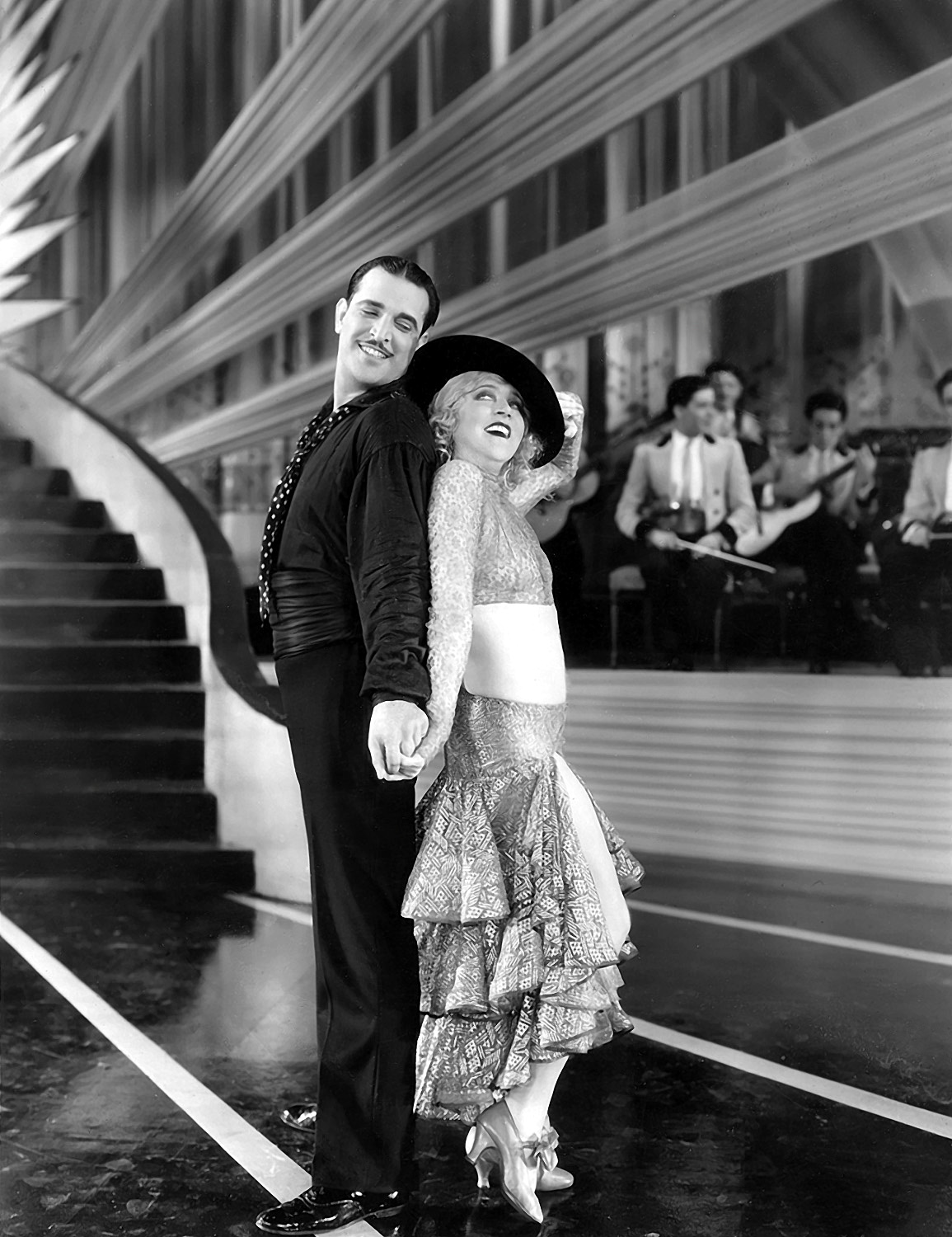 Mae Murray and Edmund Lowe in the Robert Z. Leonard's silent film Peacock Alley (1922).